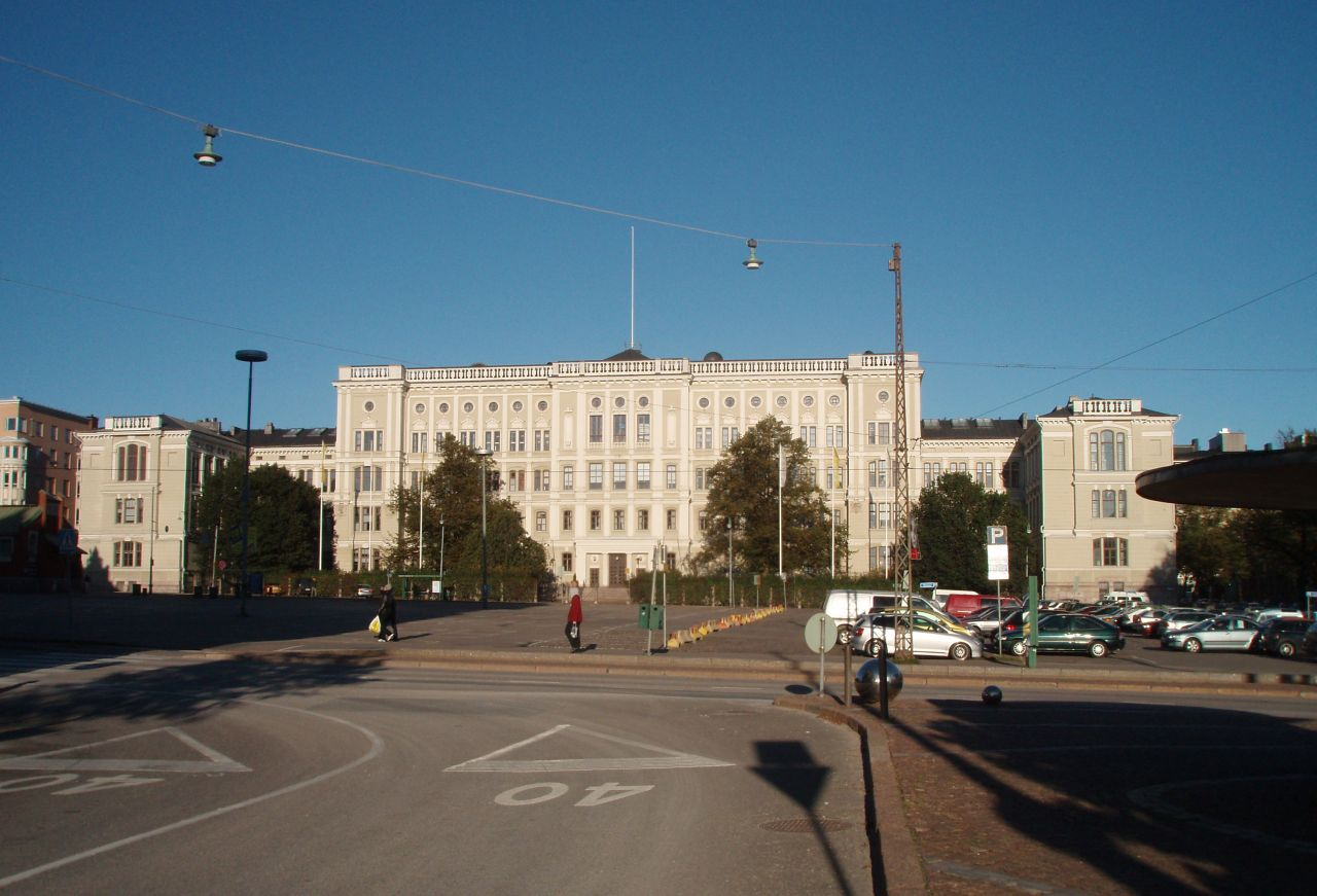 Former Helsinki University of Technology